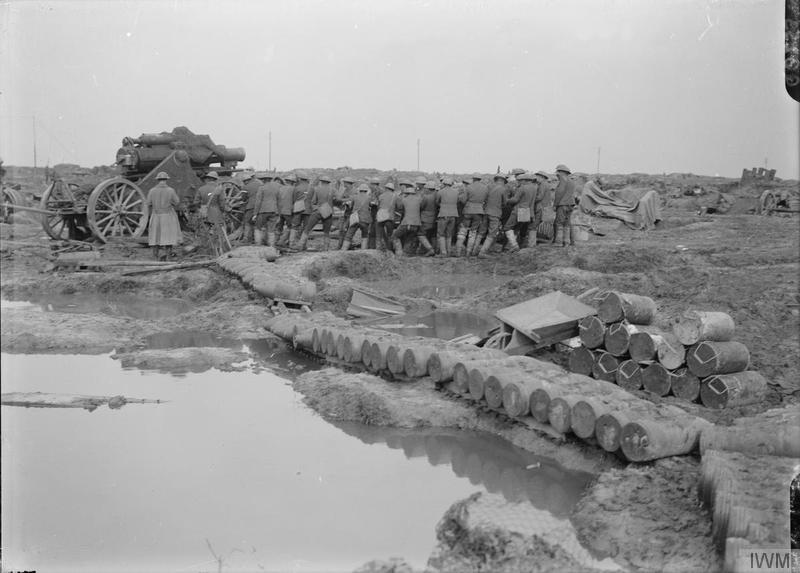 IWM caption : THE BATTLE OF PASSCHENDAELE, JULY-NOVEMBER 1917. Men of the 124th Siege Battery, Royal Garrison Artillery manhandling a 9.2 inch howitzer over muddy ground at Pilkem near Ypres, 14 September 1917.